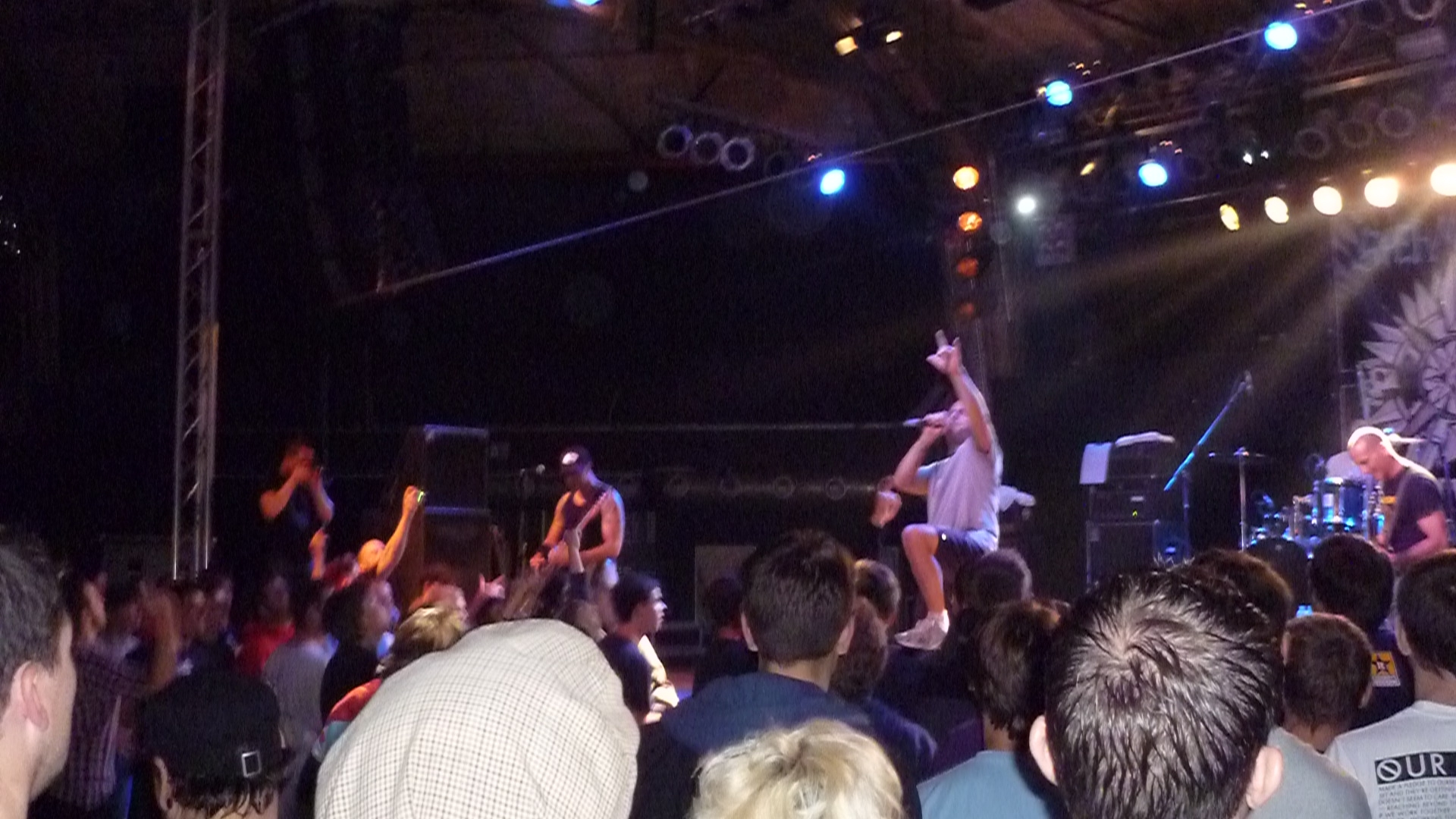 Youth of Today live at the Garage Saarbrücken (2010)